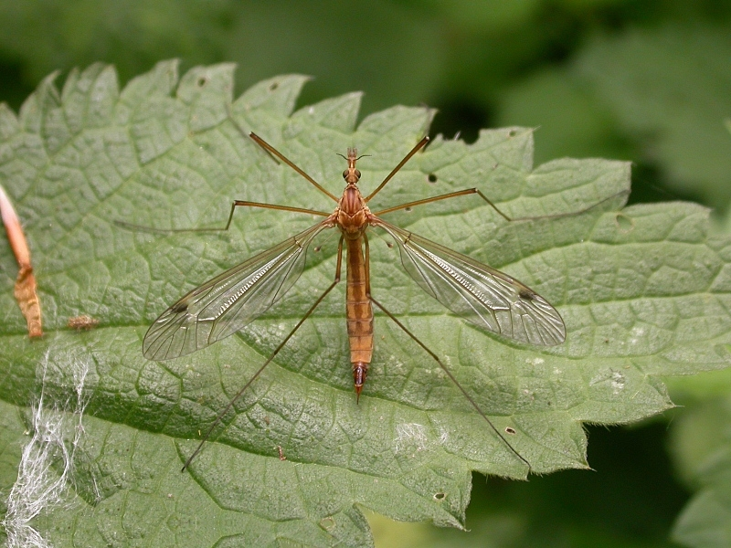 Tipulidae species, Mörfelden, Hesse, Germany